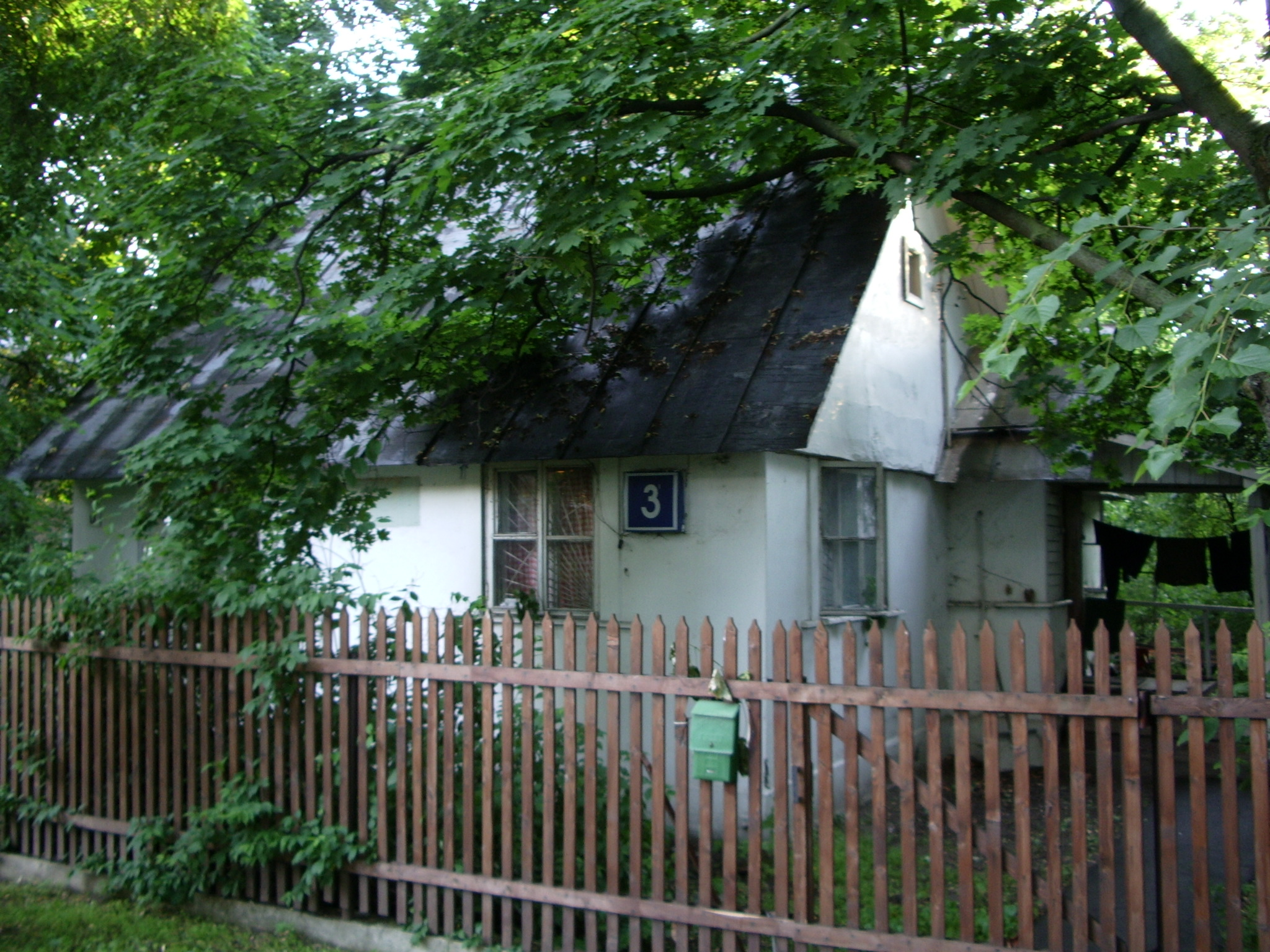 Vereschagina street, 3. Sokol Settlement in Moscow.